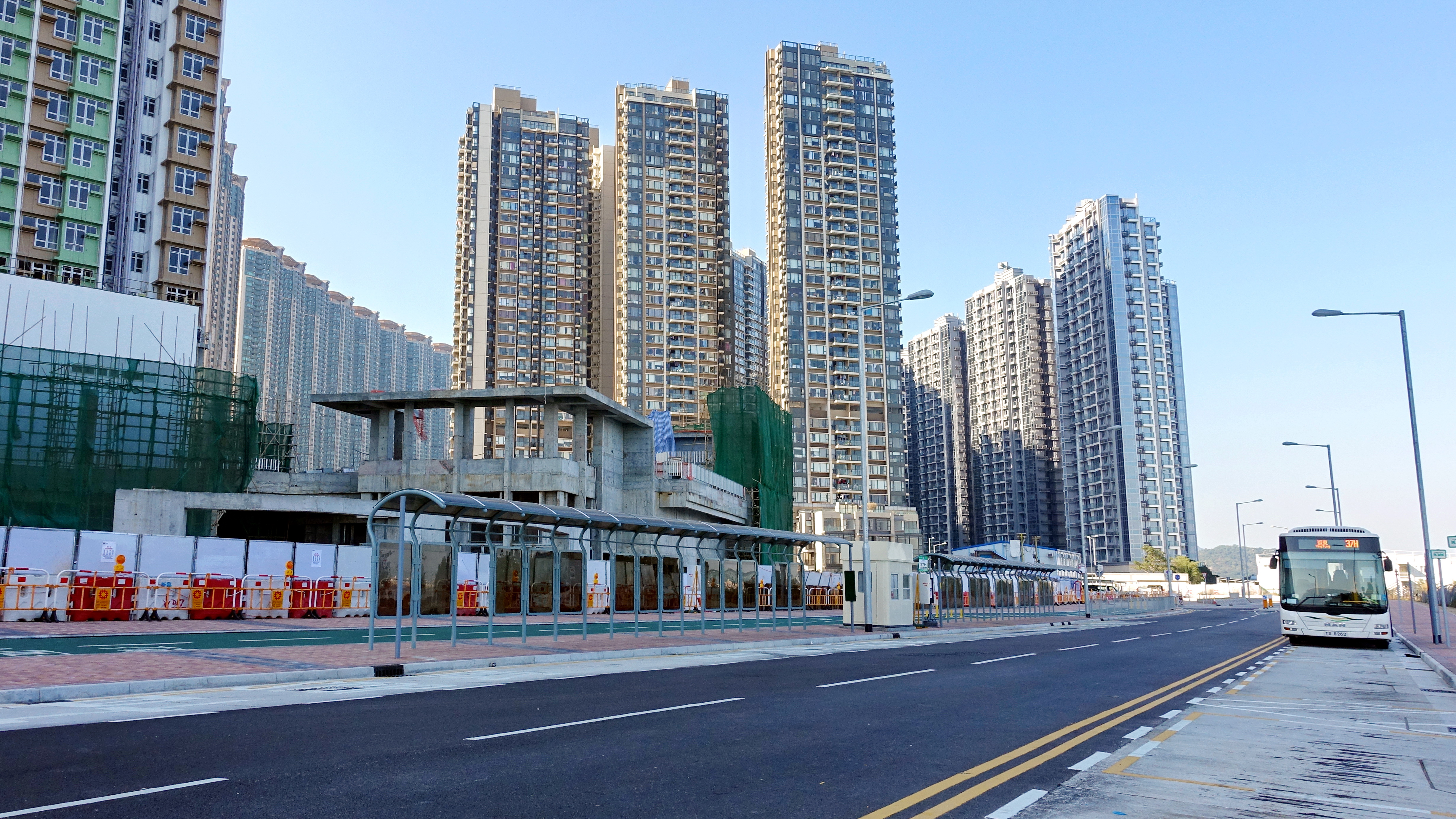 Ying Tung Estate Bus Terminus, Tung Chung, Hong Kong.